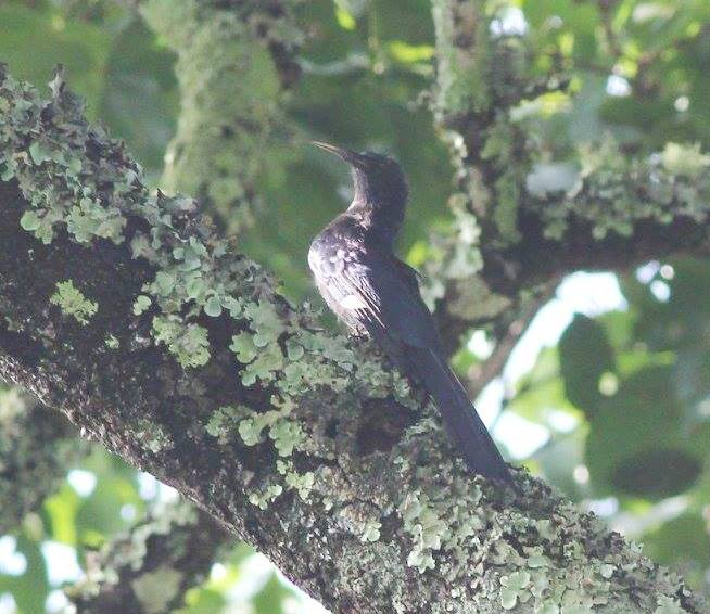 Black scimitarbill near the source of the Cuanavale River in Angola